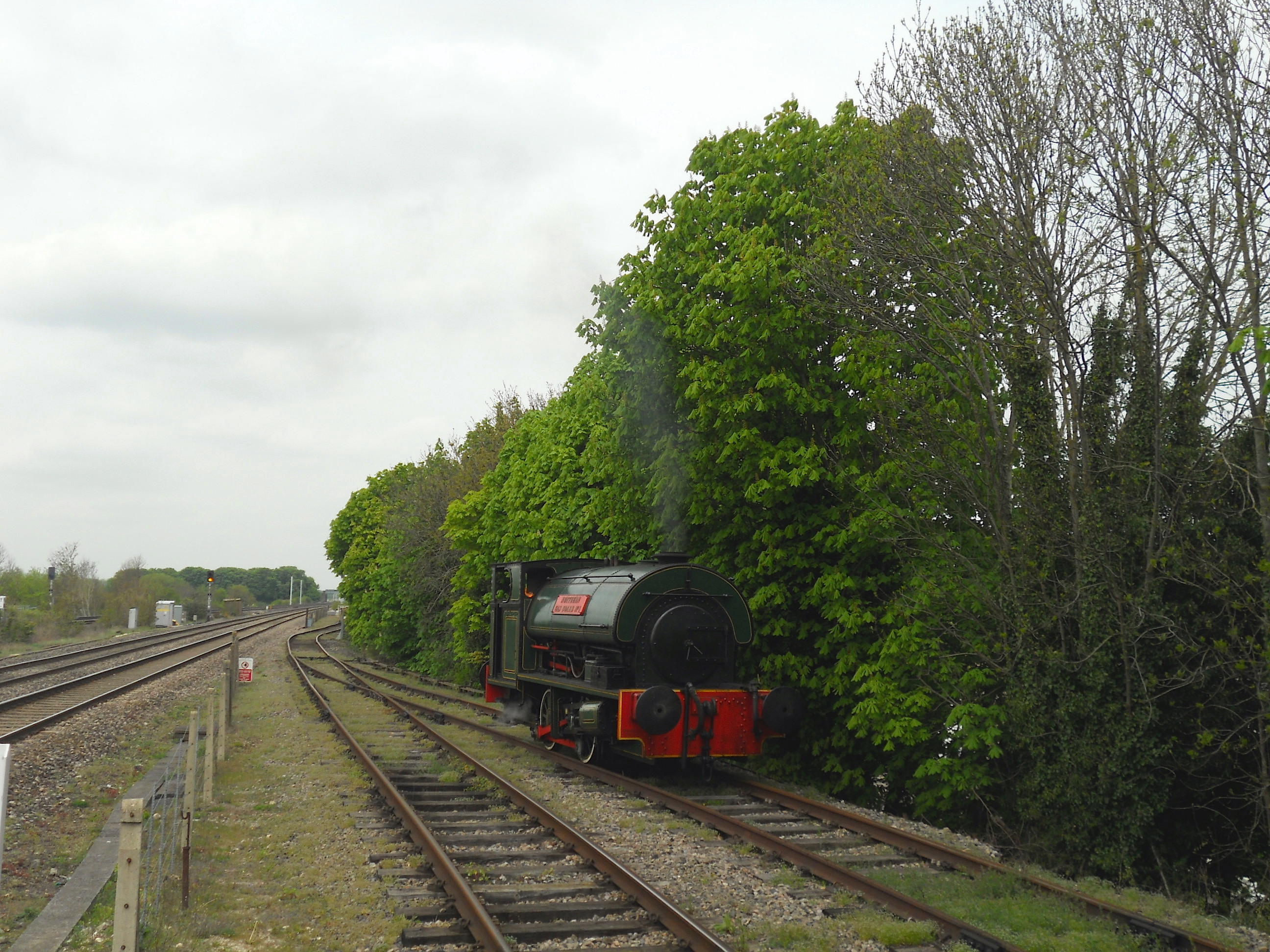 Peckett 0-4-0ST 'Northern Gas Board No. 1' runs round the train at Cholsey on the Cholsey and Wallingford Railway